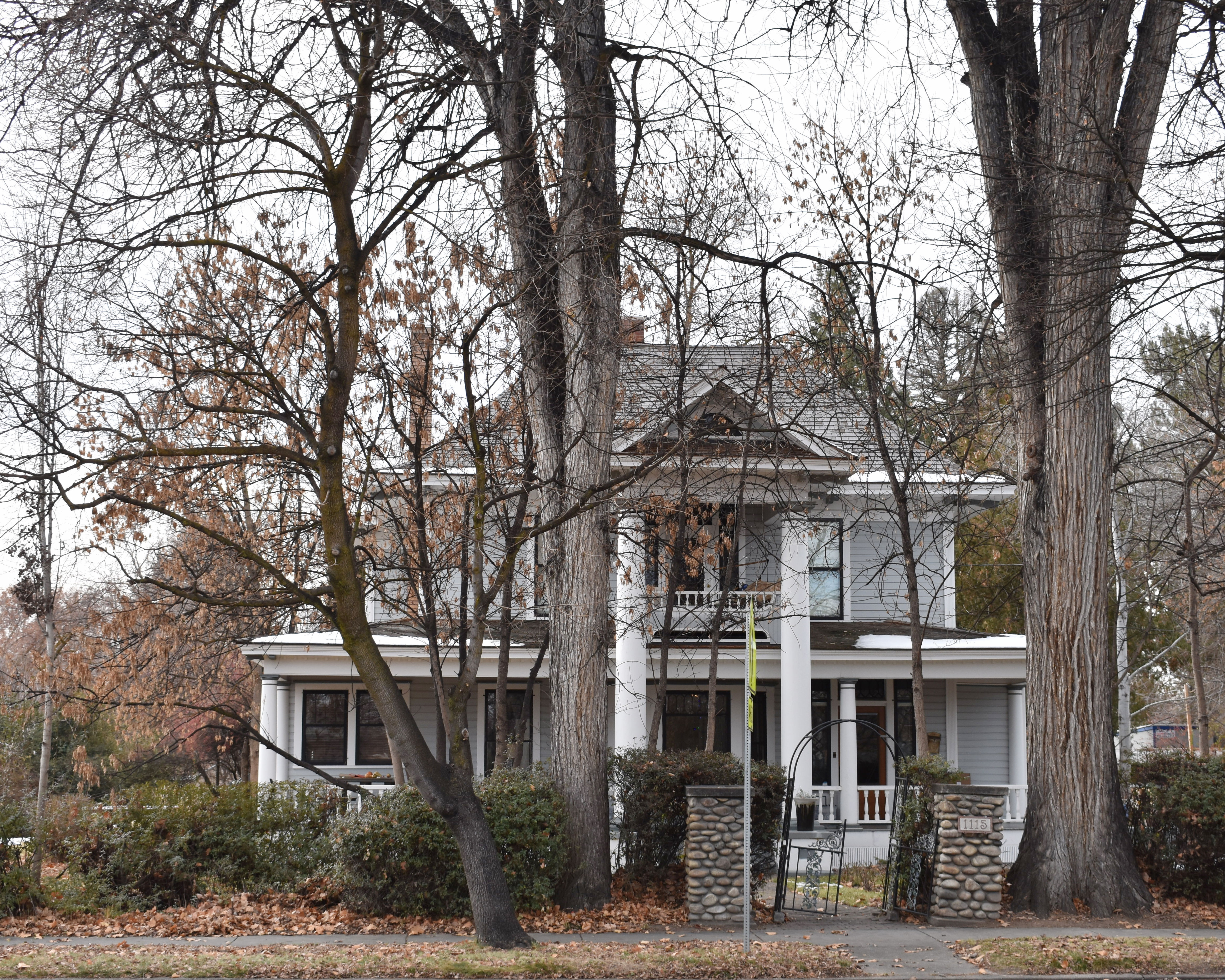 The Hopffgarten House in Boise, Idaho, is listed on the National Register of Historic Places. Constructed in 1899, the house was purchased in 1915 by Harry J. Hopffgarten, a painter who specialized in signage and billboard advertisements. In 1922 Hopffgarten hired Wayland & Fennell to design the classical porch facing Boise Avenue.